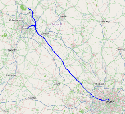 Route of High Speed 2 based on OpenStreetMap[1], which is in turn is based on the official GIS information published on .uk by the DfT on 19 January 2012.